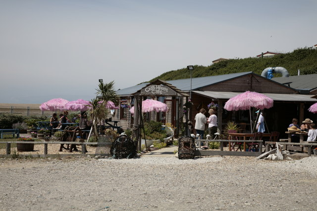 Crab House: Restaurant and oyster farm on the Fleet.